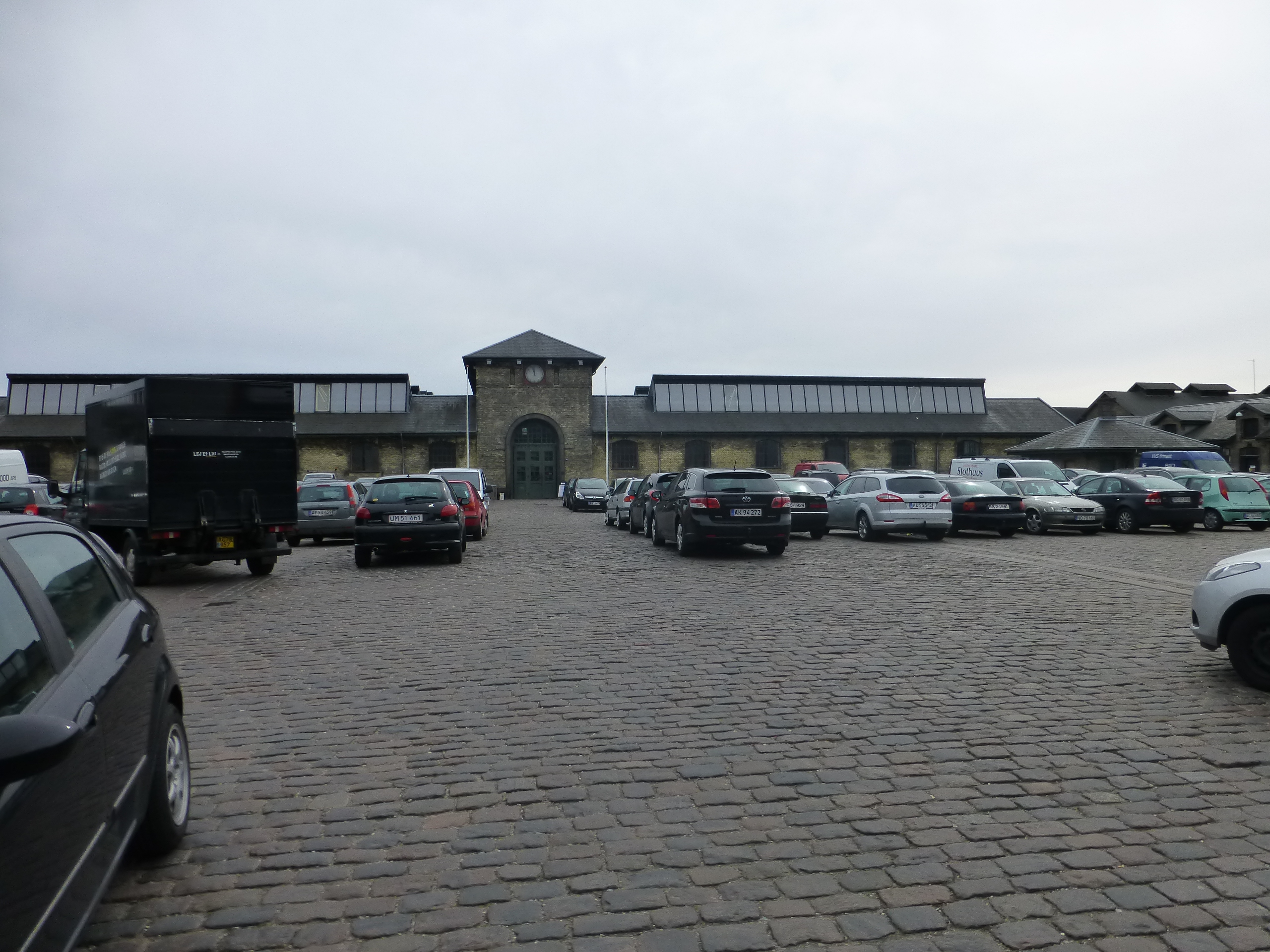 Kvægtorvet is a square in Vesterbro in Copenhagen.